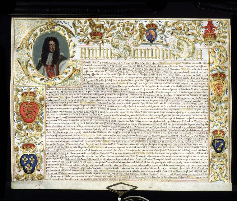 The Grant of deed of Arms of Earl of Abingdon, 1682 V&A Museum no. W.25:1 to 3-1987 Techniques - Vellum, inscribed, illuminated and gilded, with a black wax seal attached by a plaited cord of metal thread Place - London, England (possibly) The granting of an earldom would have been of paramount importance to a family, particularly if it involved a promotion to higher rank. A special box was required to protect the precious document and its seal, without which the deed would not have been valid. People - The Grant was made on 20 November 1682 to James Bertie, 5th Lord Norris (1653-1699). The document includes a portrait of Charles II, who reigned from 1660 to 1685. Abingdon was Lord Lieutenant of Oxfordshire from 1674 until 1687. Later, he offered financial support to William III, but he ended up opposing his accession to the throne and duly withdrew from the court.